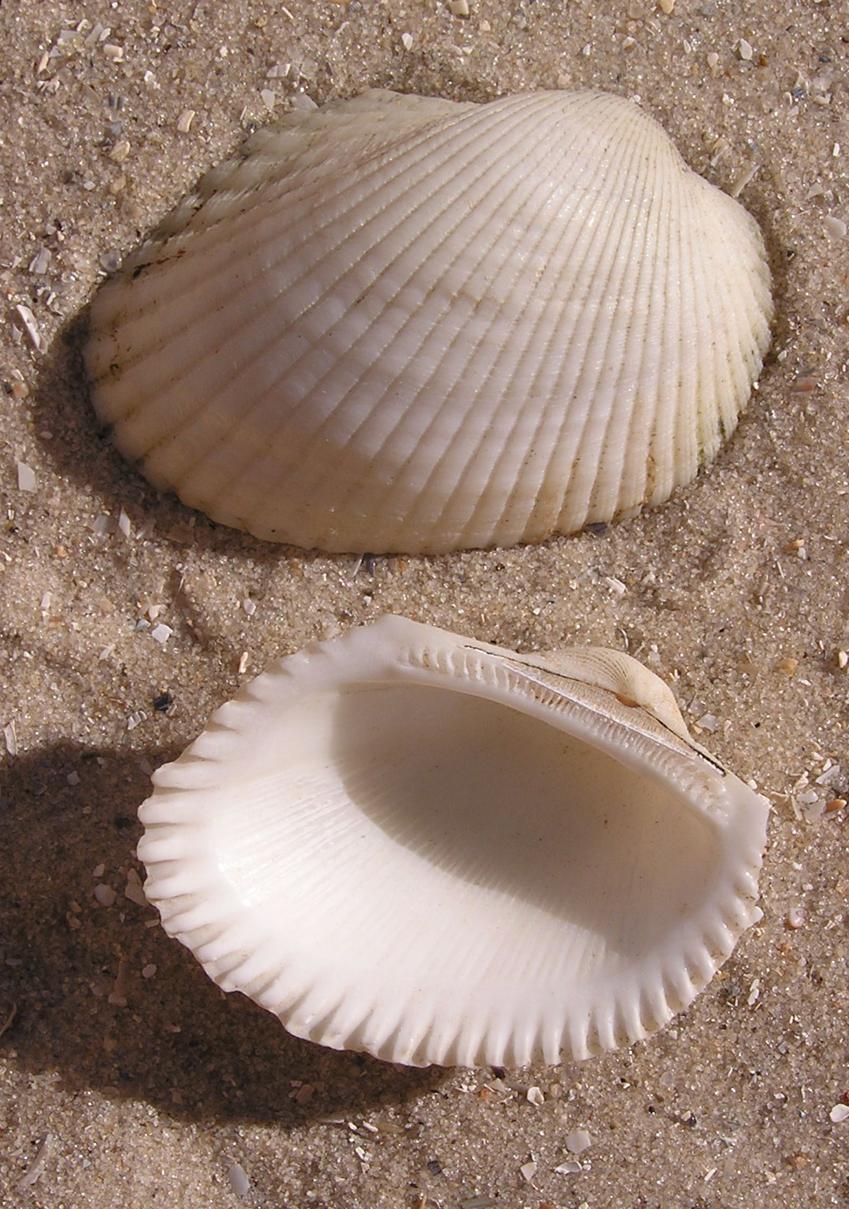 Anadara kagoshimensis shell.